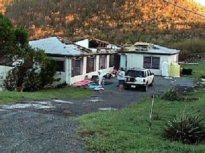 This image shows structual damage caused by Hurricane Lenny in November of 1999.